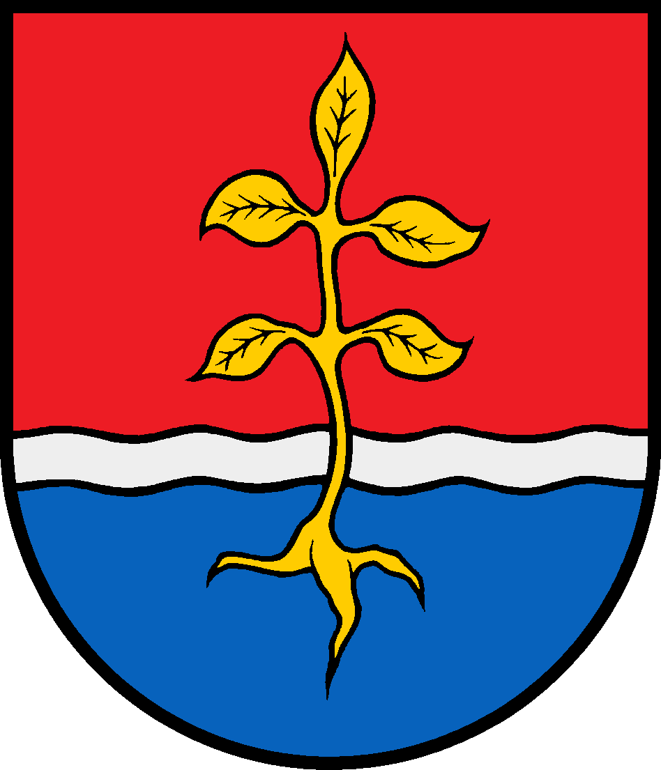 Coat of arms of the municipality Schmalensee in Schleswig-Holstein, Germany.